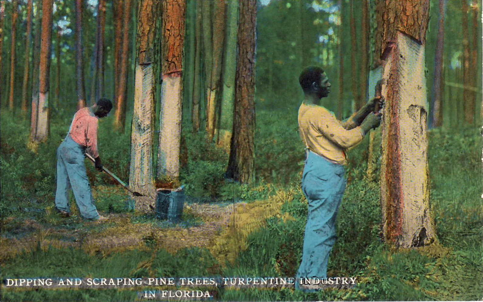 Postcard: "Dipping and scraping pine trees. Turpentine industry in Florida." Postmarked 1912 Description: "postmarked 1912" according to store Web page Source: eBay store Web page